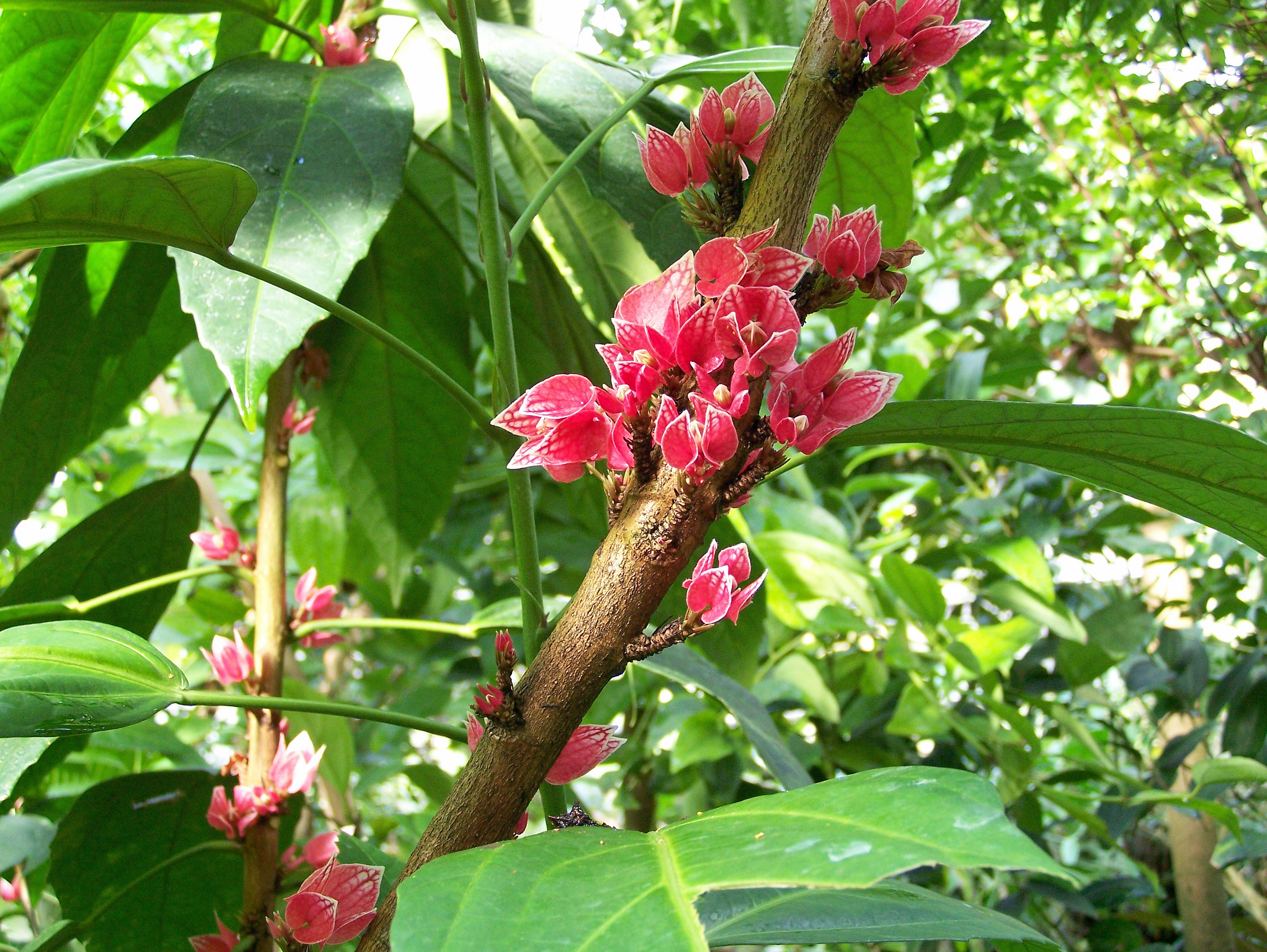 Image of Malvaceae Pavonia cauliflora / Goethea cauliflora